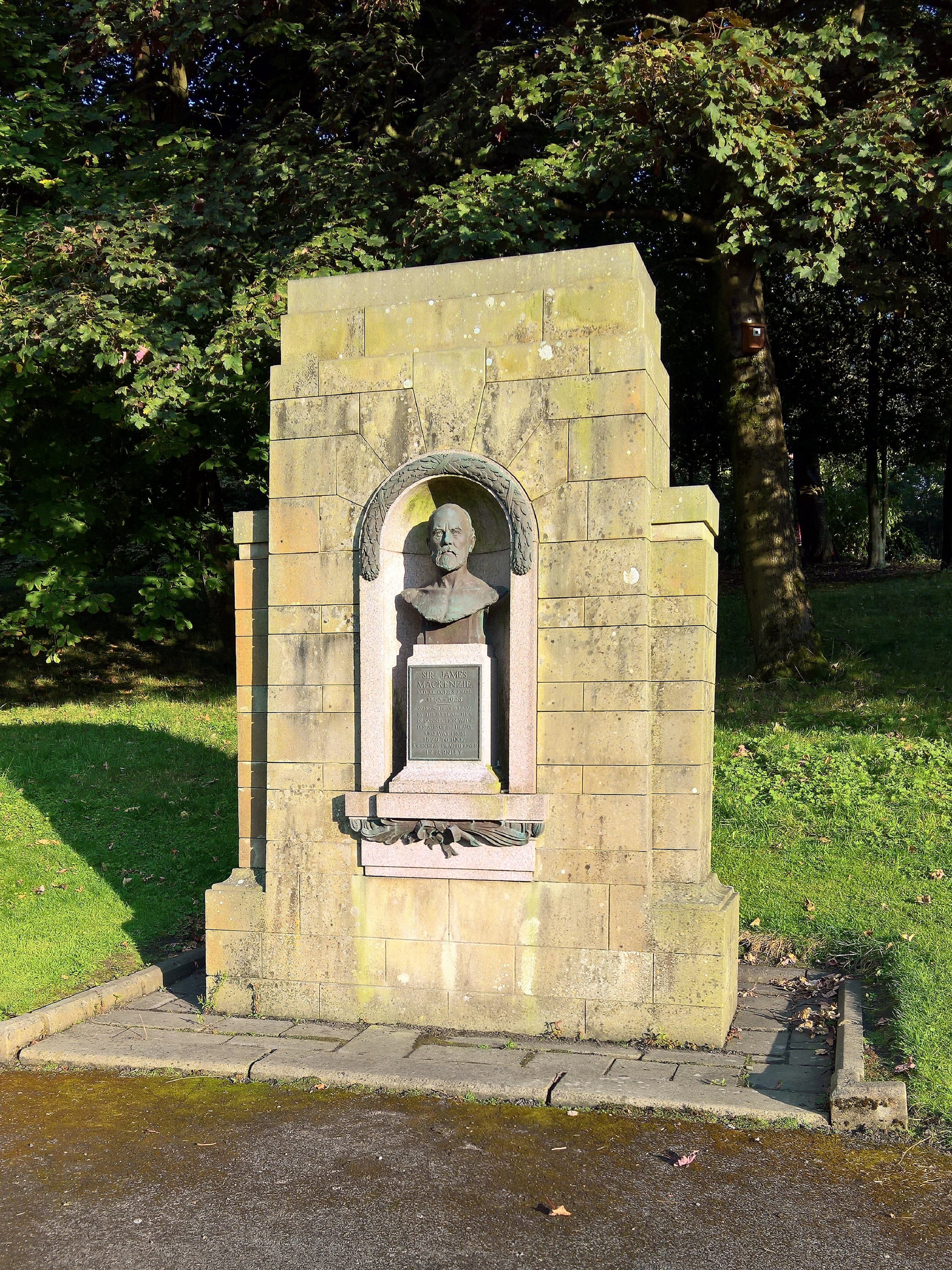 The memorial to Dr James Mackenzie in Thompson Park, Burnley.